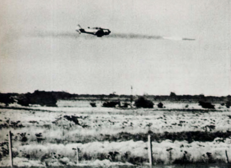 AT-6 combat trainer is attacking column of vehicles